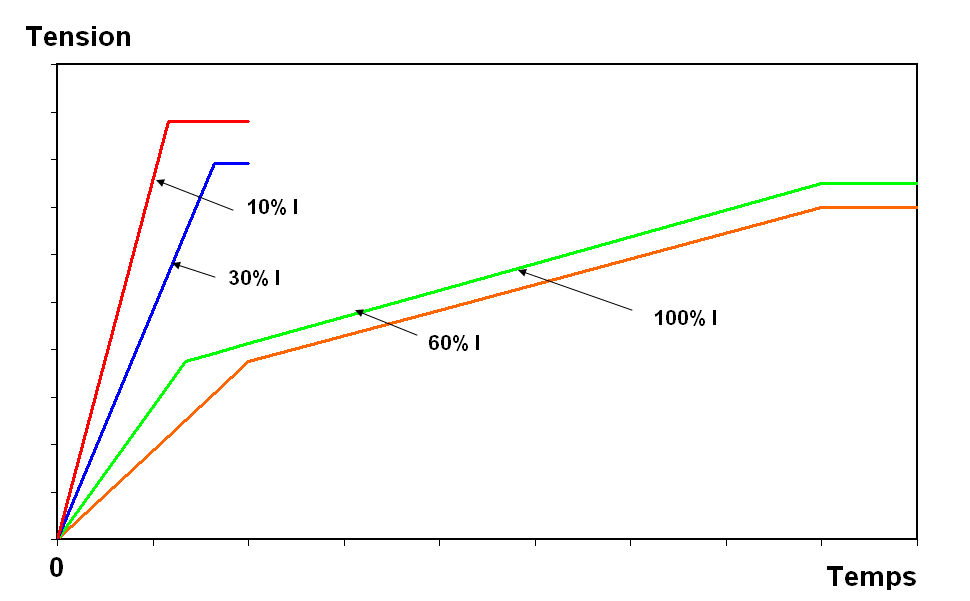 Standard TRV for circuit breakers rated 100 kV and higher